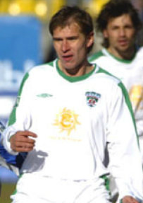 Denis Klyuyev in action for FC Terek